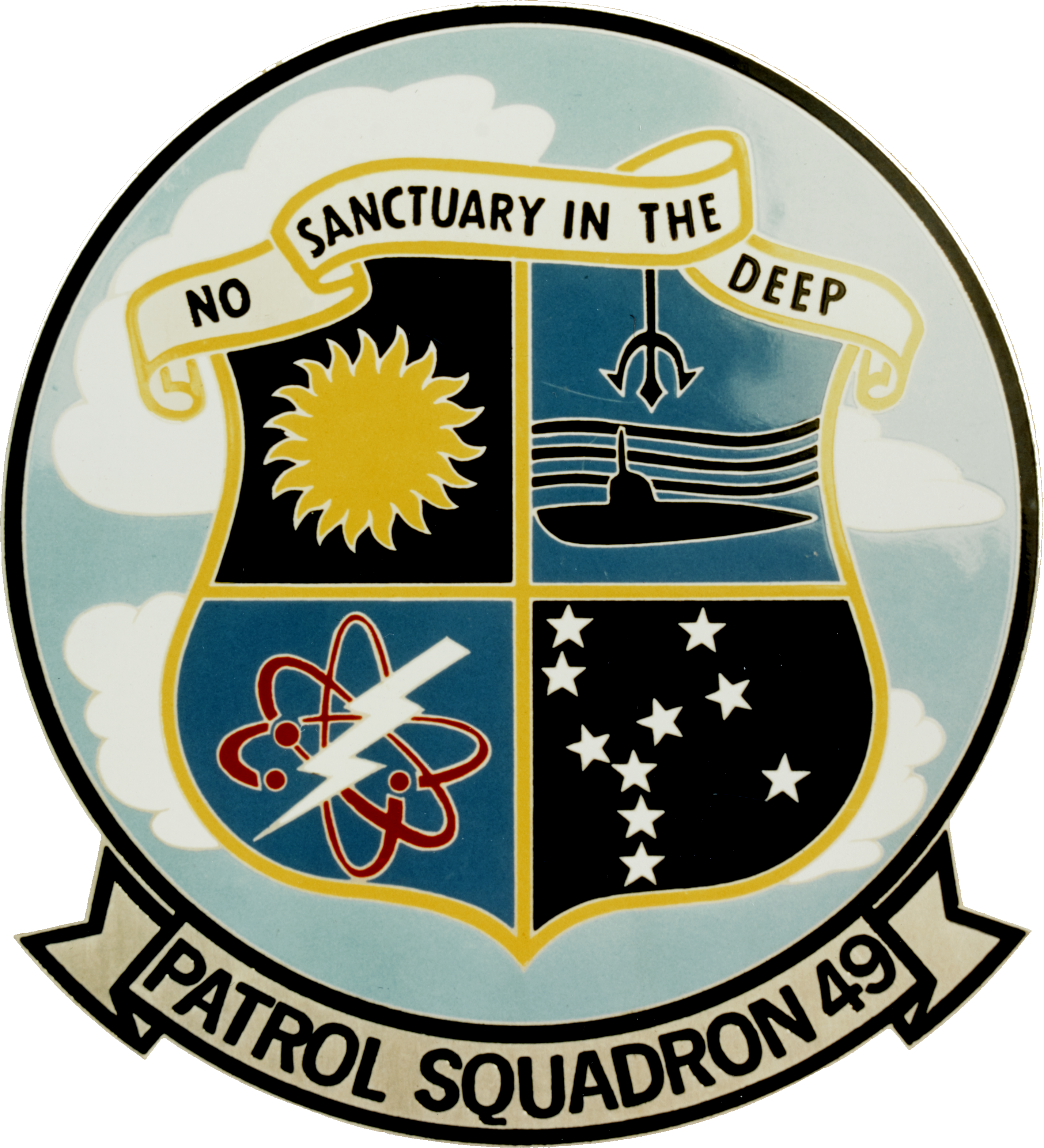 Insignia of the U.S. Navy Patrol Squadron 49 (VP-49) "Woodpeckers", approved in August 1962.